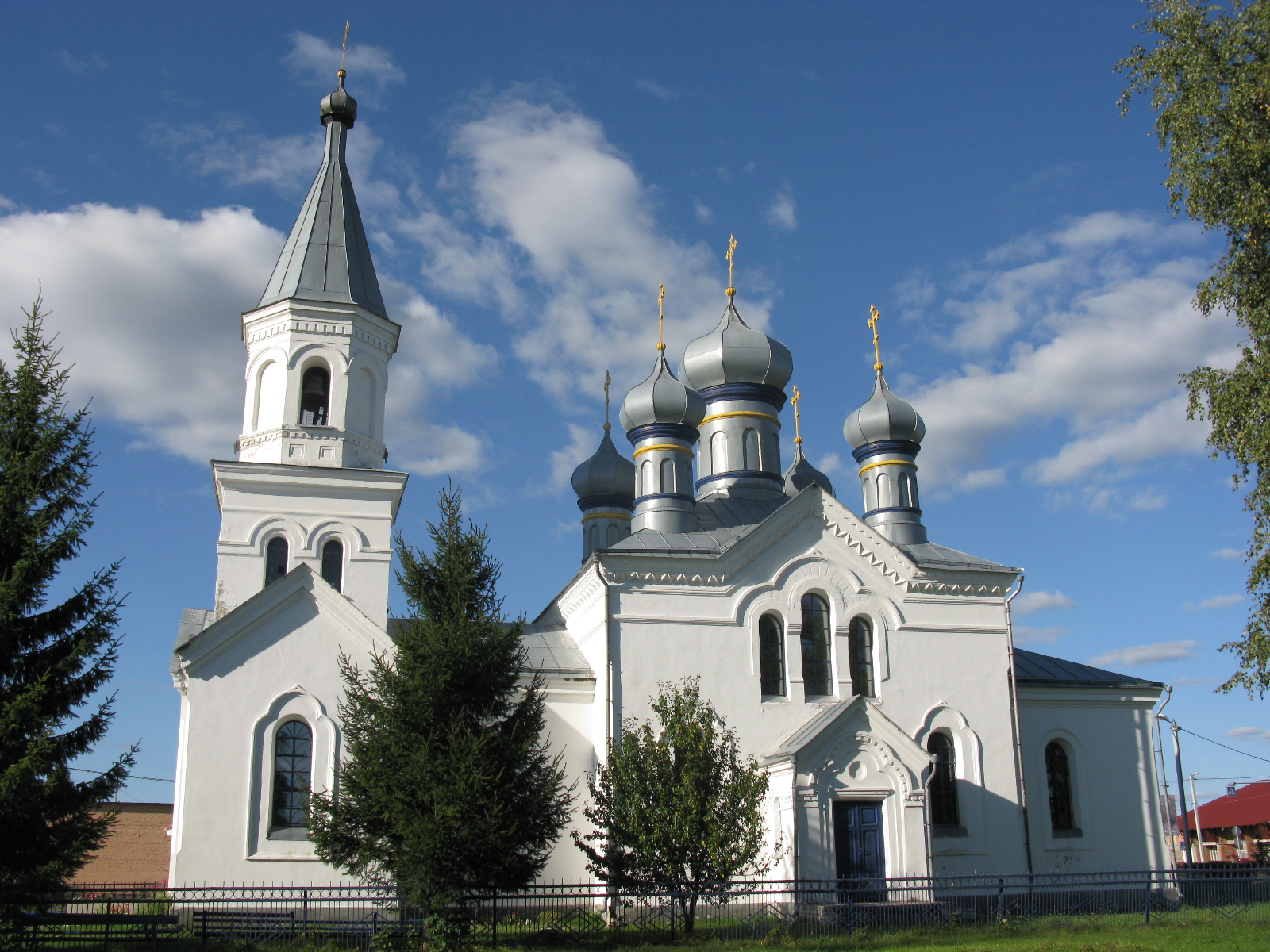 Orthodox church of Holy Trinity. Lahishin, Belarus.